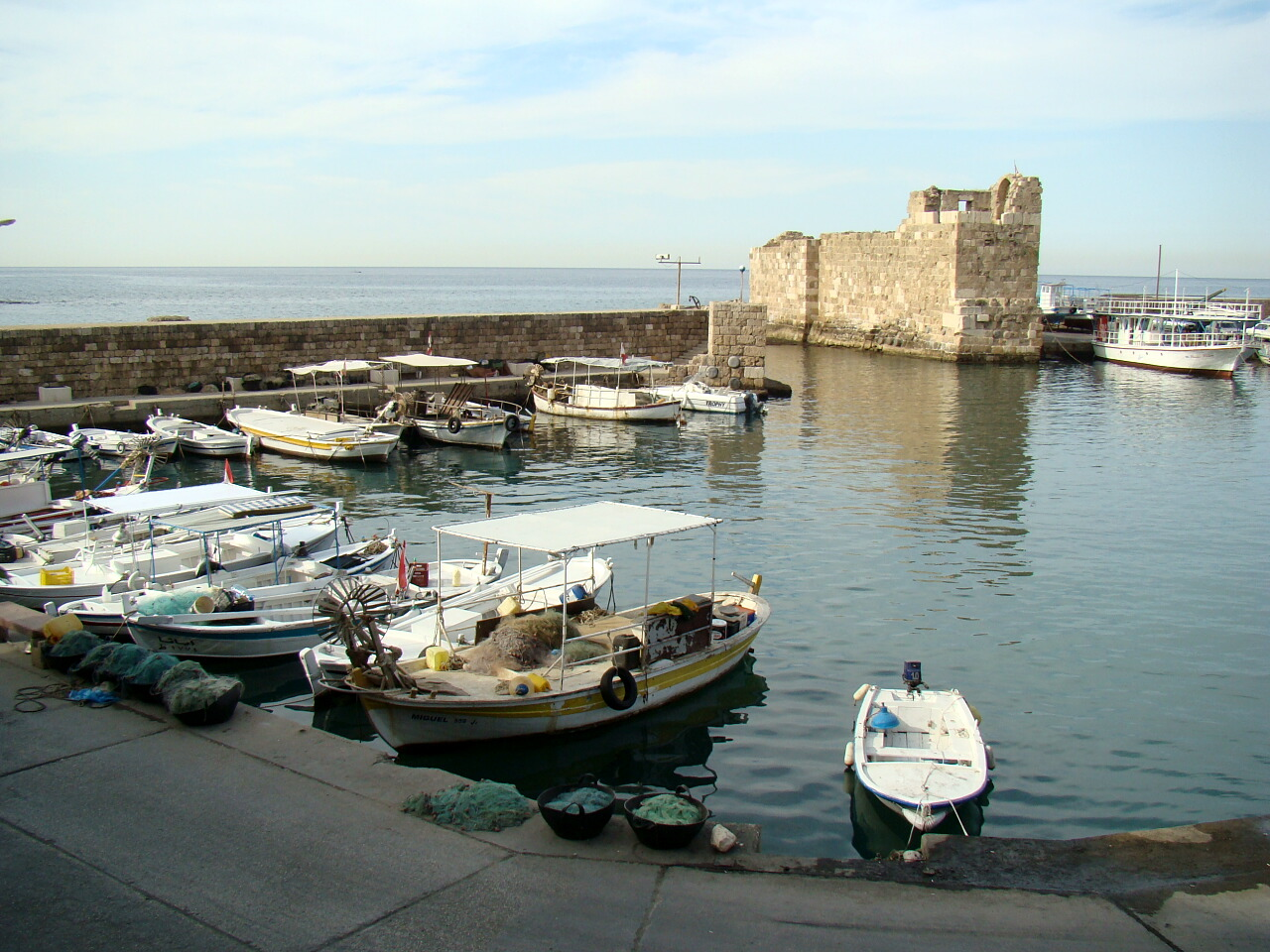 Port of Byblos (Phoenicia)